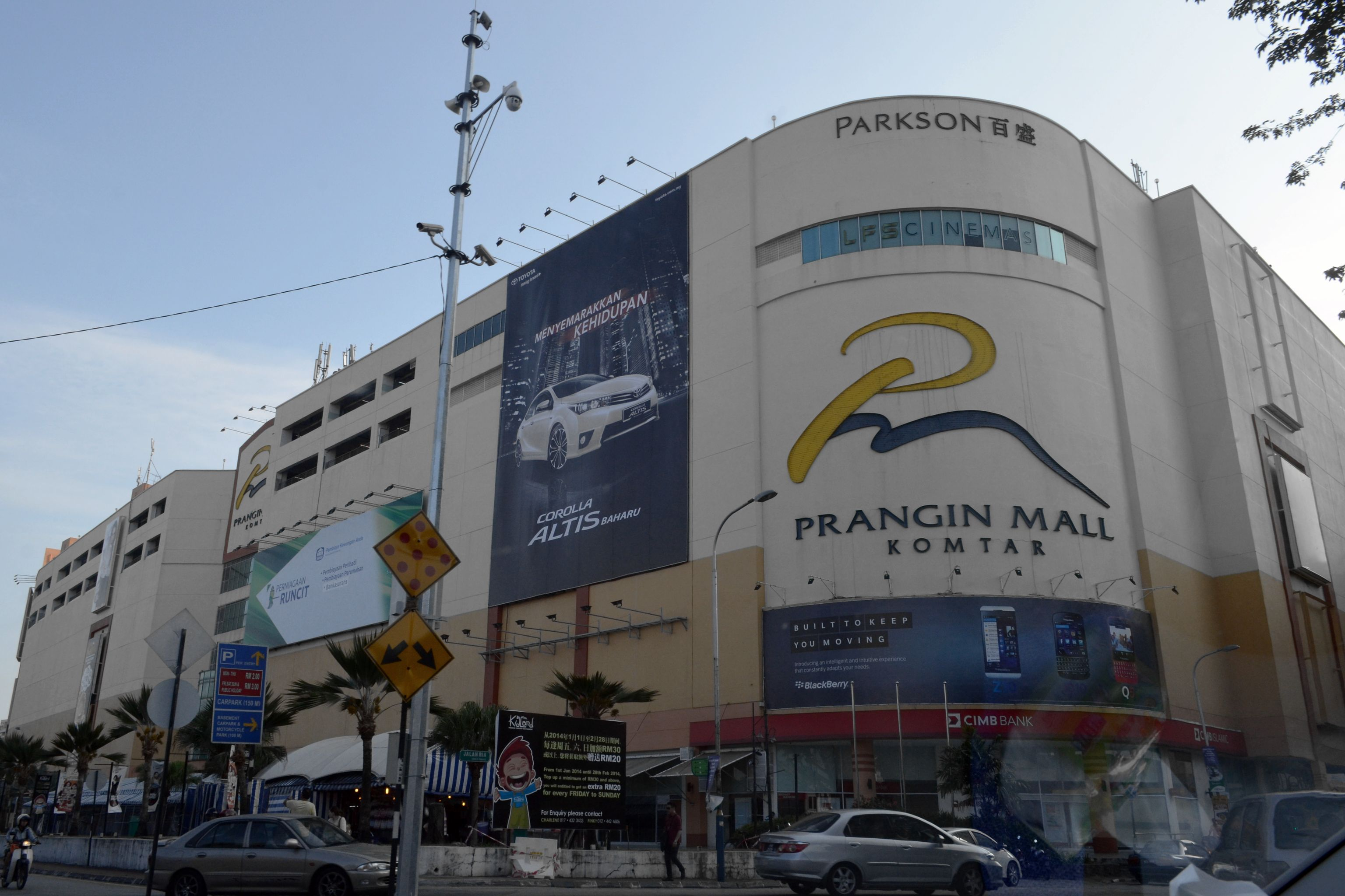 Prangin Mall viewed from Jalan Dr Lim Chwee Leong (Prangin Road).